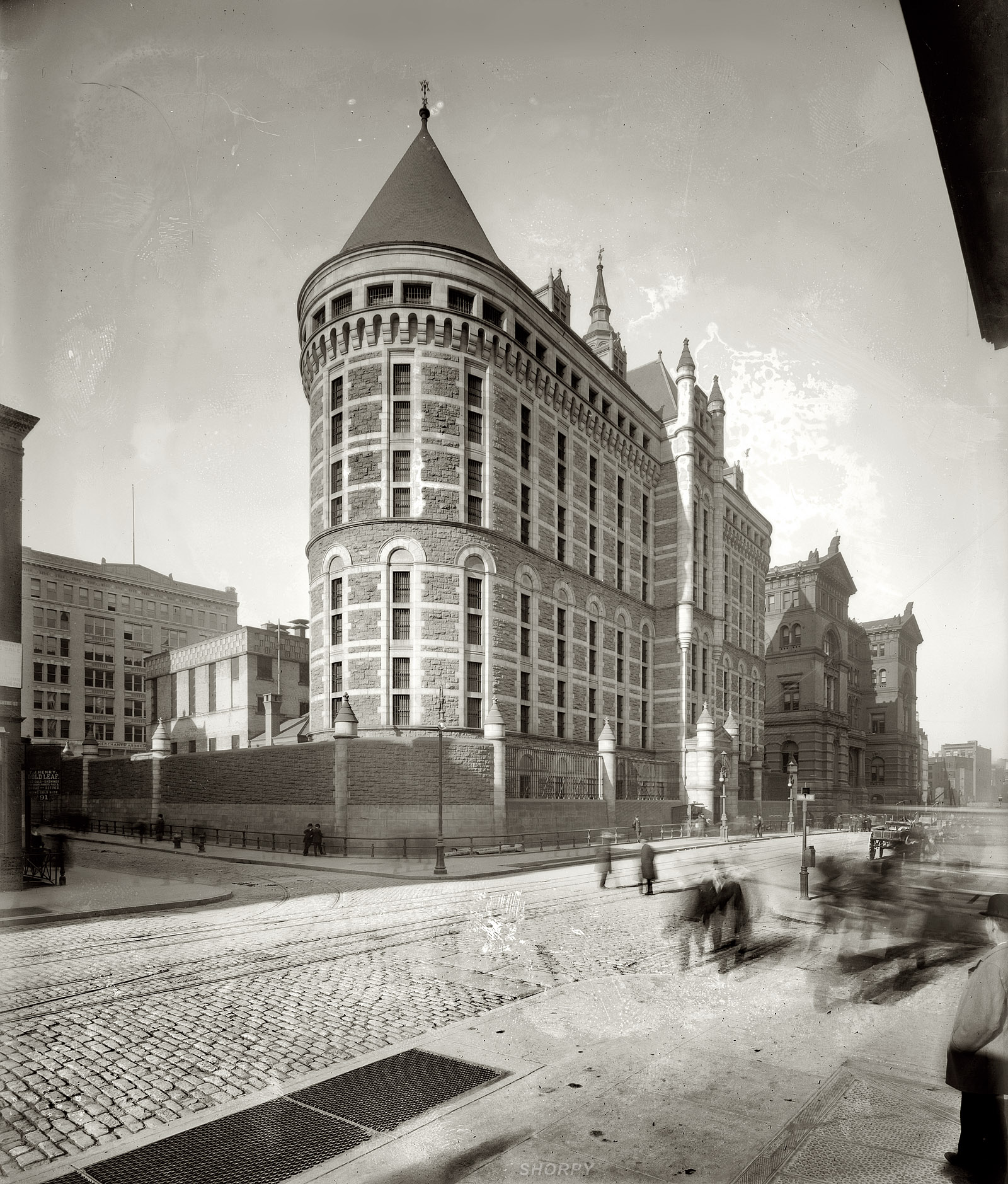 Tombs Prison, New York City